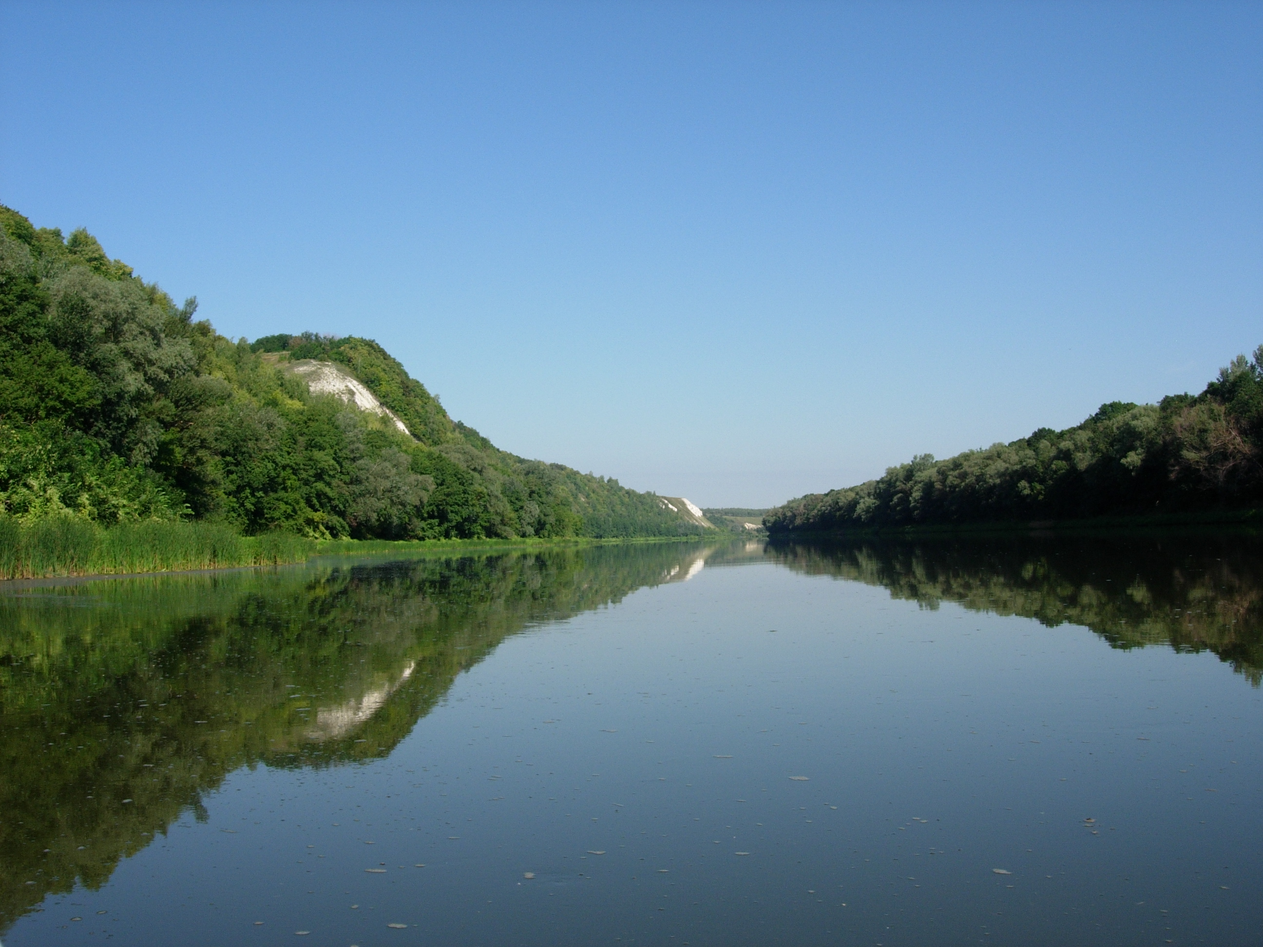 Don upstream of Pavlovsk